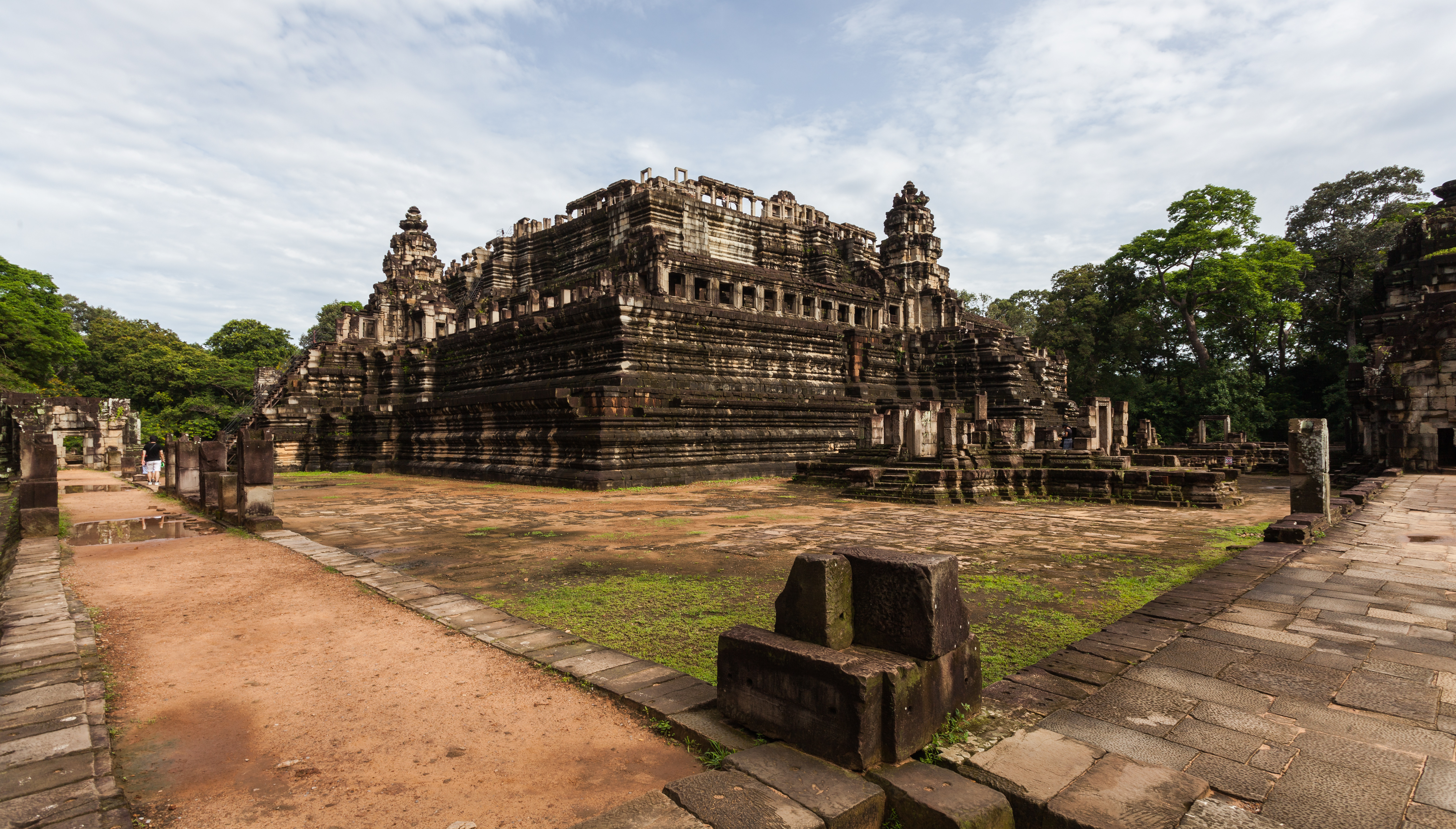 Baphuon, Angkor Thom, Cambodia